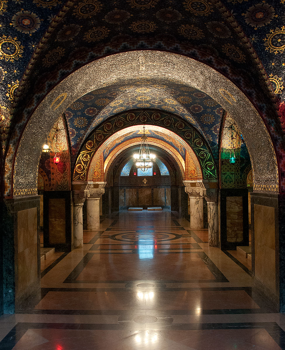 St George Church, Oplenac, Serbia